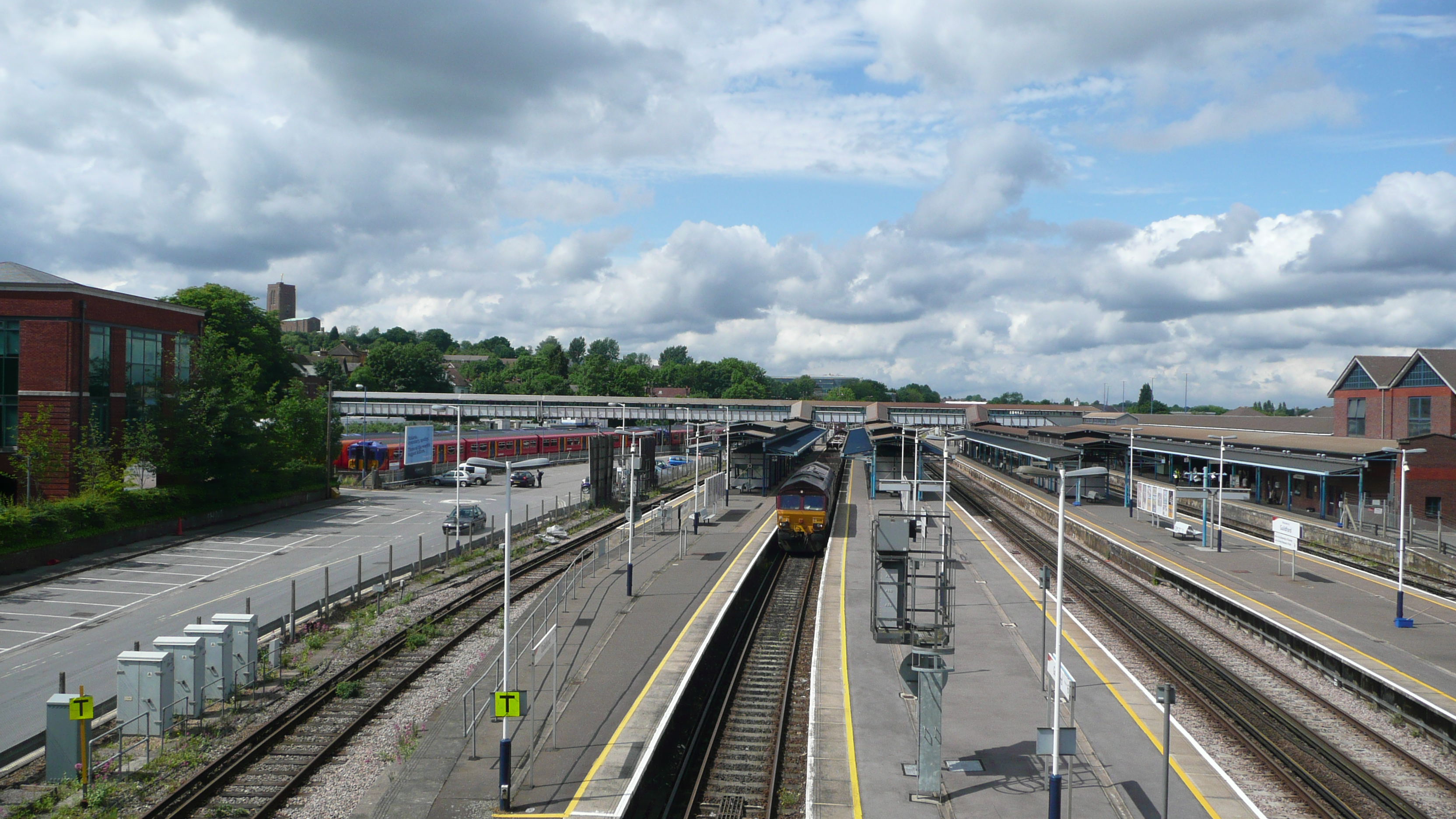 Guildford railway station in Surrey, taken from the road bridge adjacent to the station. Platform 1 is on the right hand side of the photo.